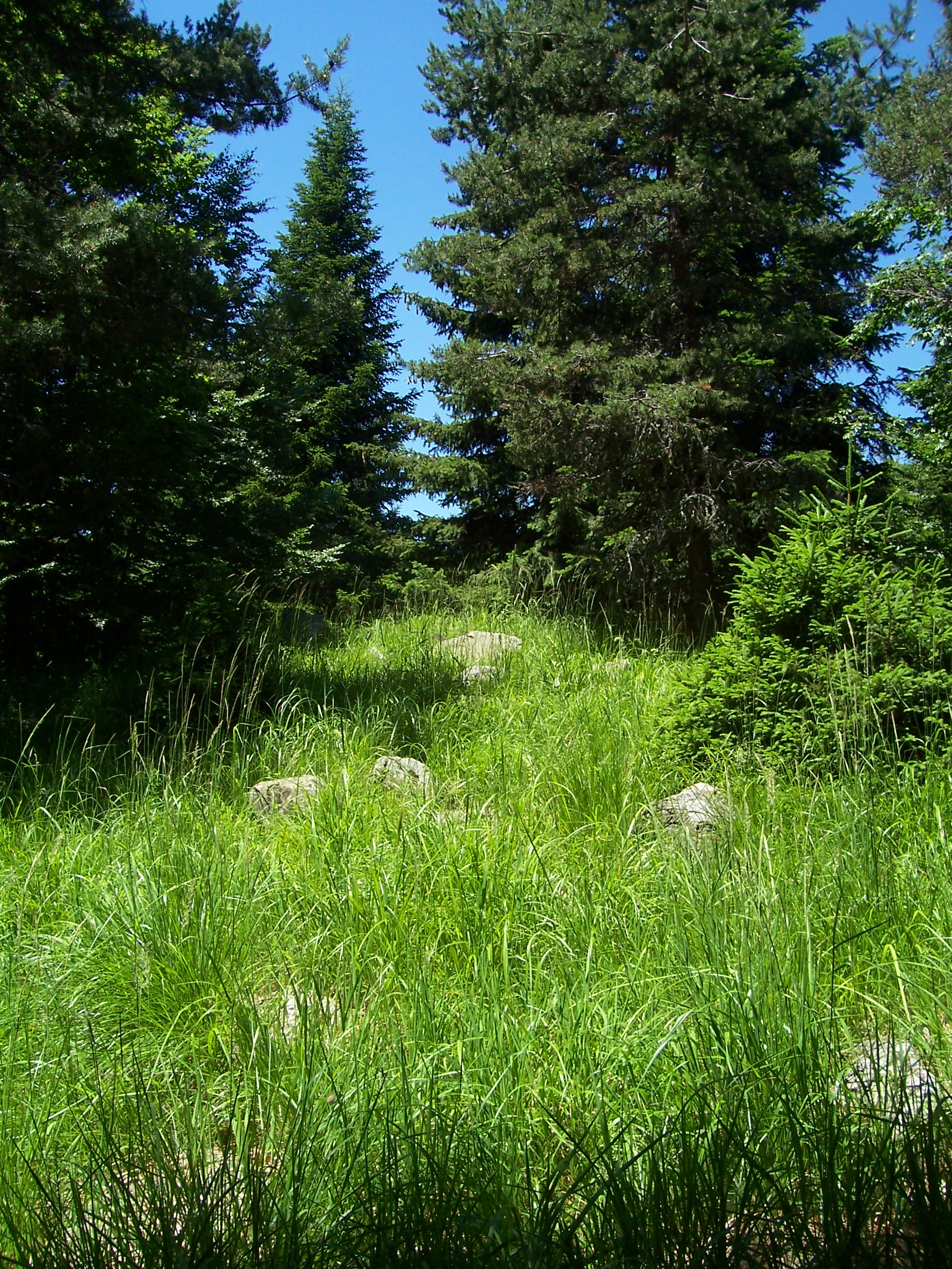 Unden Summit in the Rhodope Mountains.